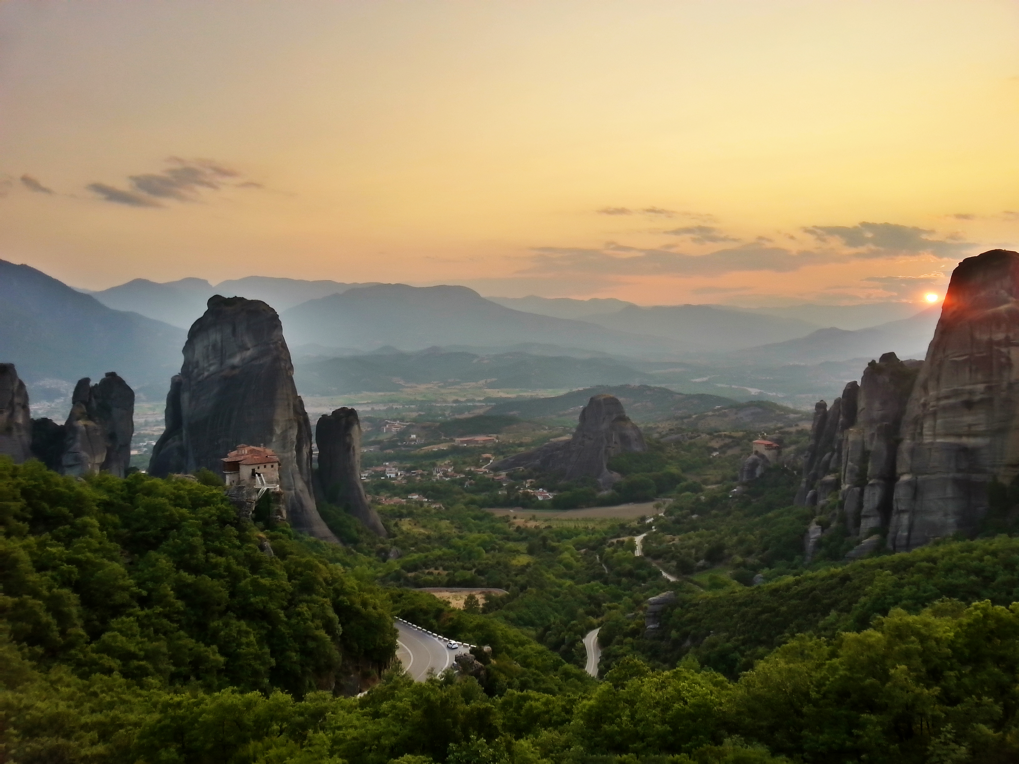 This is a photography of Natura 2000 protected area with ID GR1440003